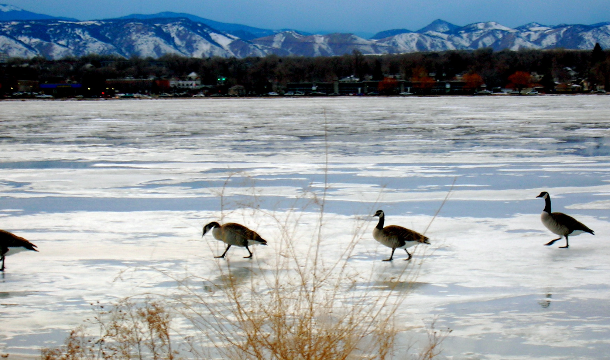 Picture taken in January 2008 of Sloan's Lake Park, Denver, Colorado